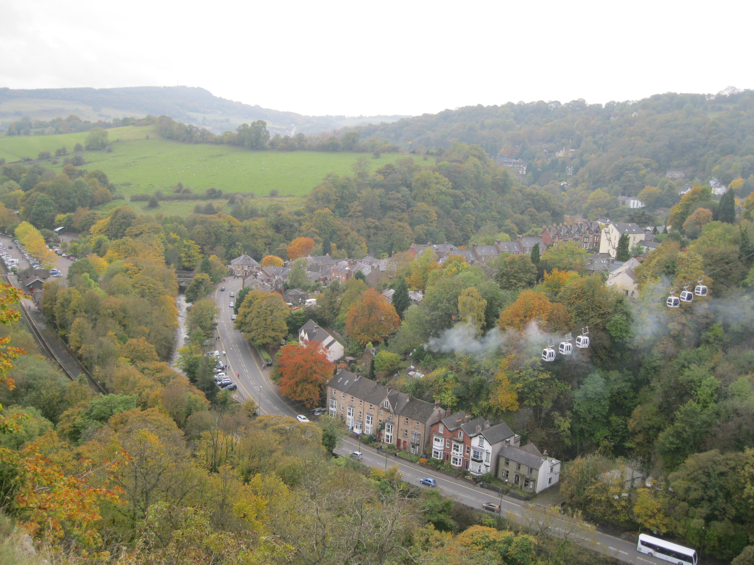 Matlock Bath, Derbyshire